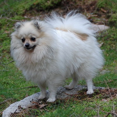 Kleinspitz